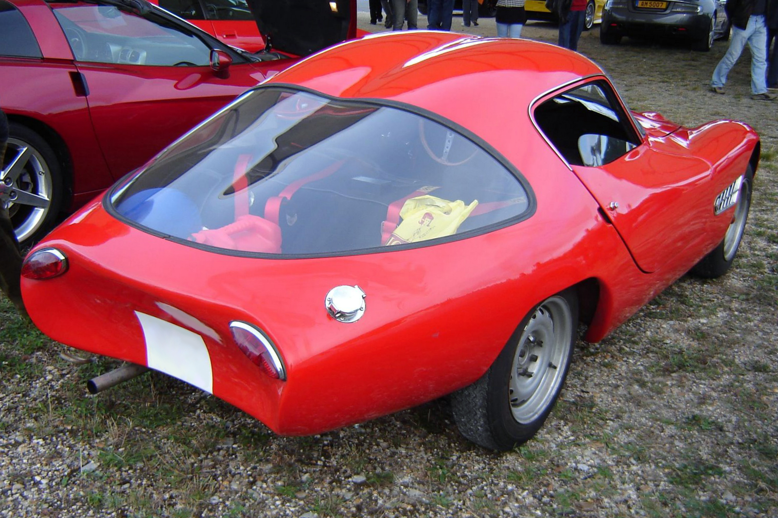 1959 Abarth-Alfa Romeo 1300 Berlinetta (Colani) at the Autodrome de Linas-Montlhéry, 2009. There were originally three (or two?) 998cc Abarth-Alfa Romeos built, after two were crashed while testing in Germany Colani bought the leftovers and rebodied them. The original short-stroke 998cc engine has since presumably been replaced with regular 1,290cc twin-cams.